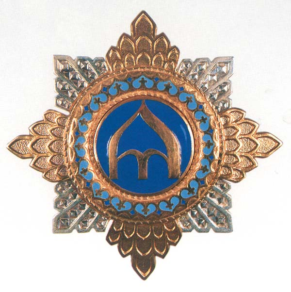 Order of the Yaroslav the Great